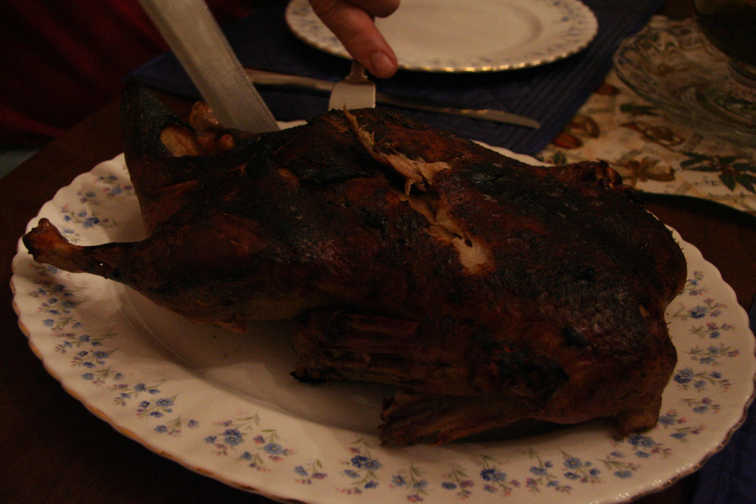 Carving the Christmas Duck on Christmas Day. This photo was taken on December 25, 2007.